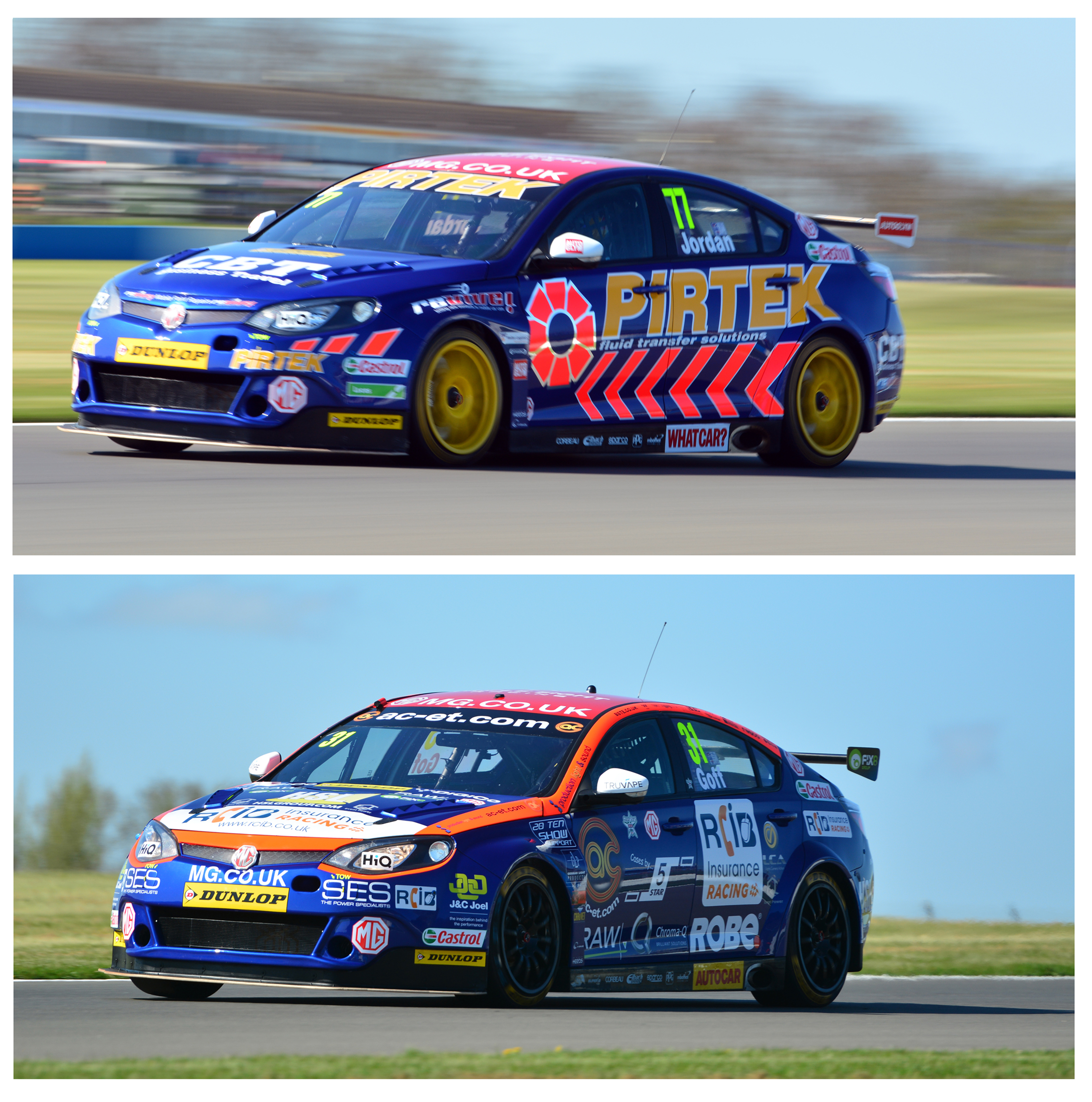 Images of the 2015 MG Triple Eight Race Car liverys.jpg